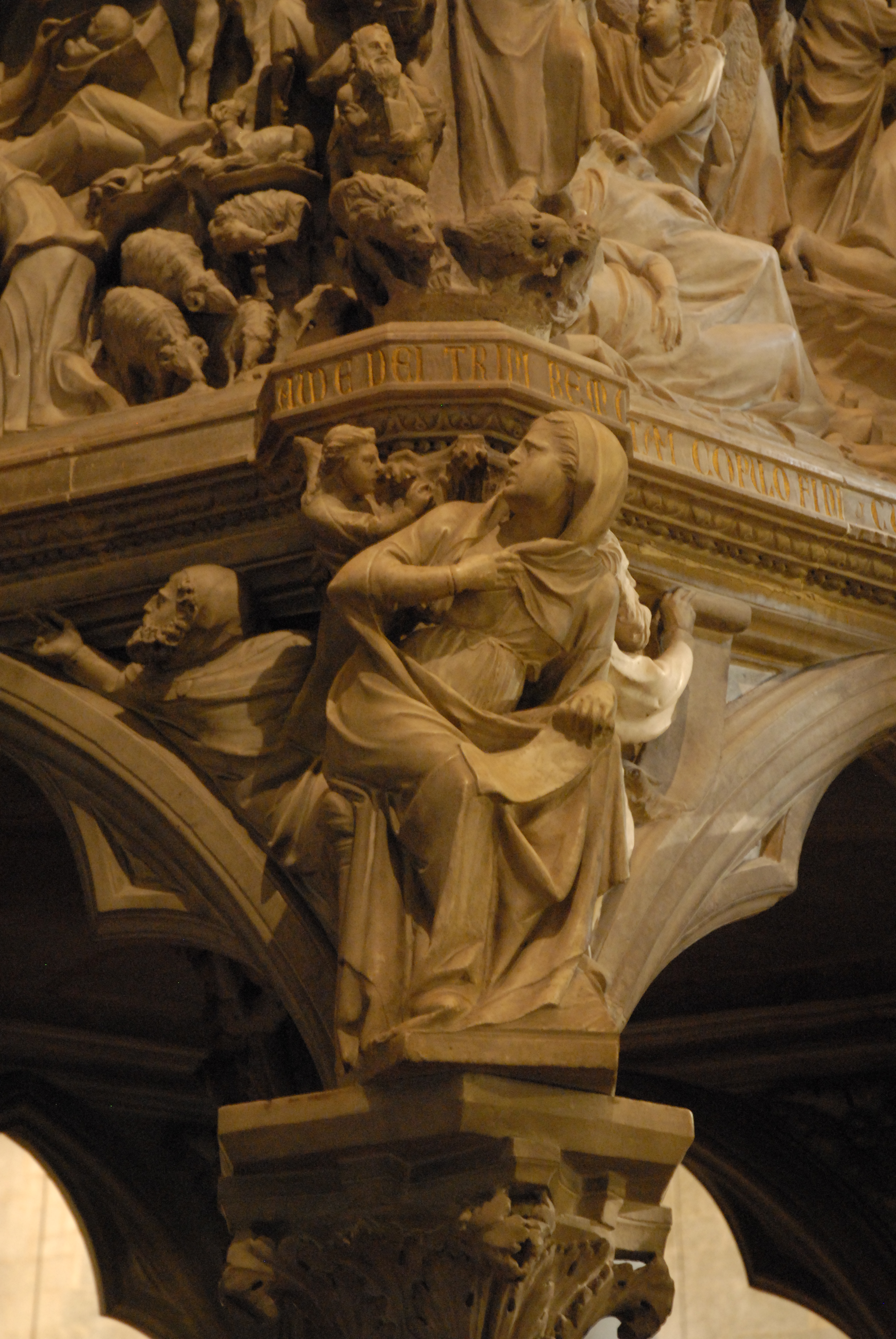 Photos taken' in Pistoia, during the national Wikimedia Italia meetup in Pistoia, 20-21 march 2010